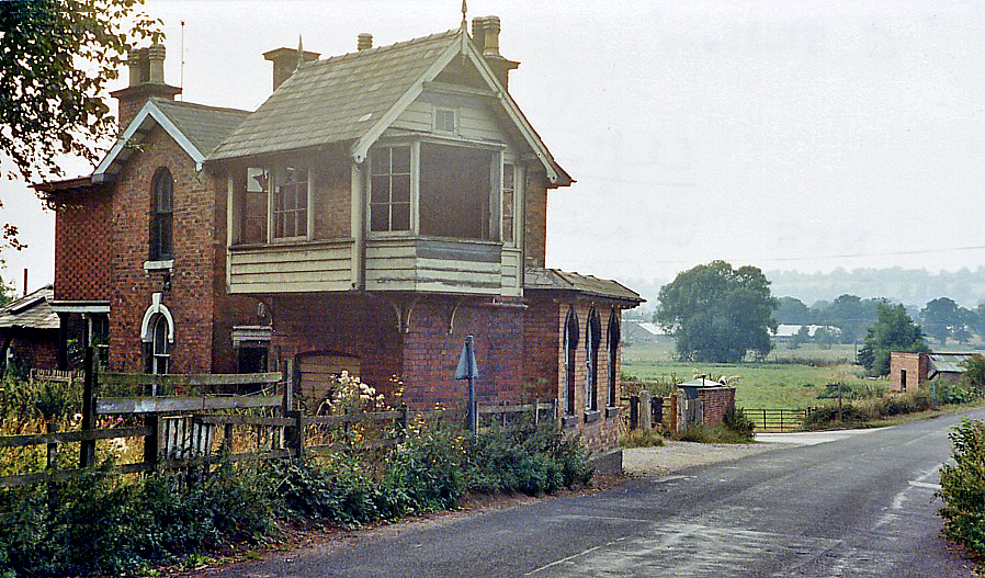 Former station at Clifton (for Mayfield), 1983 View NW on A52 where it crossed the ex-North Stafford Uttoxeter (left) - Ashbourne (right) line, which closed to passengers from 1/11/54, goods 7/10/63. The line had been in the foreground, overlooked by the most unusually placed signalbox attached to the station house, which has survived as a private dwelling.